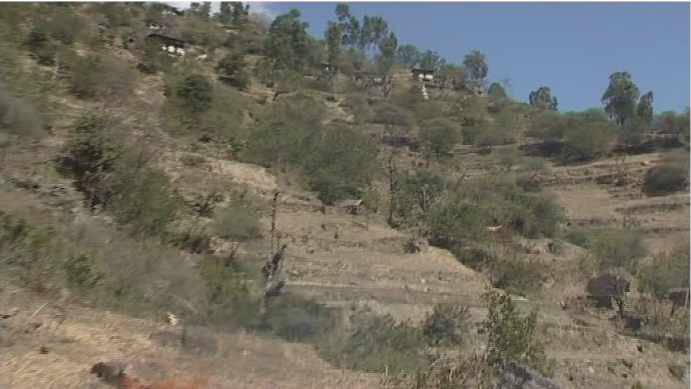 Main Khamdang Village; Khamdang; Trashi Yangtse; Bhutan